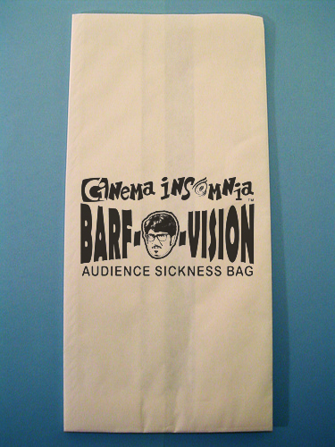 Barf-O-Vision Bags